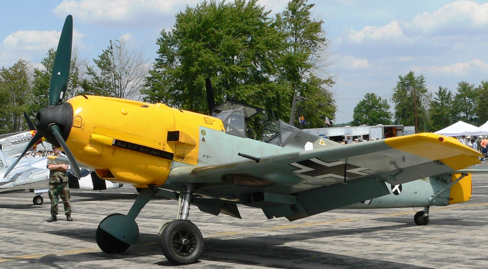 Messerschmitt Bf 109E4 Serial Number 3579 built by Arado Flugzeugwerke G.m.b.H Werk Warnemunde in 1939. This flying example was on display at Willow Run airport, Van Buren Township, MI in August 2005.